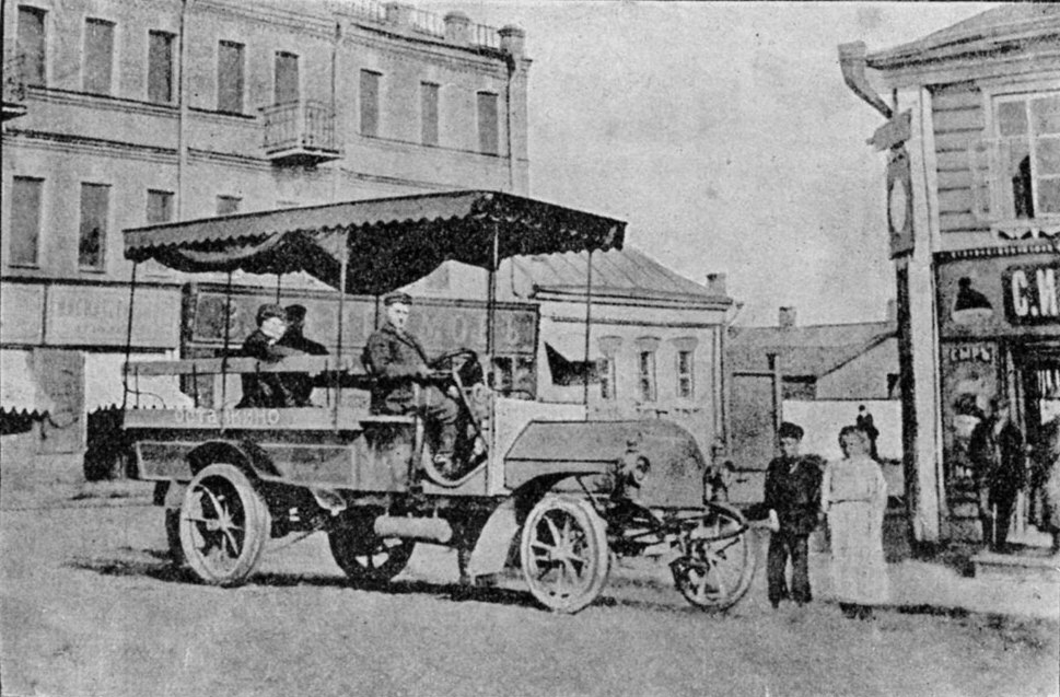 1st Moscow bus, Daimler/Marienfelde model D2, 1907